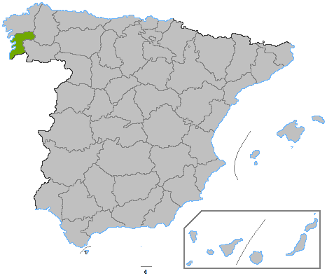 Location of the province of Pontevedra, in Spain. Basado en: ProvPont.jpg Source: Designed by Satesclop. Original picture, designed by Sobreira.